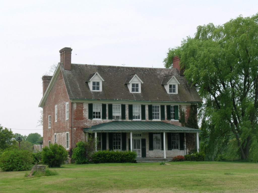 The main house on the grounds of Clover Fields Farm.